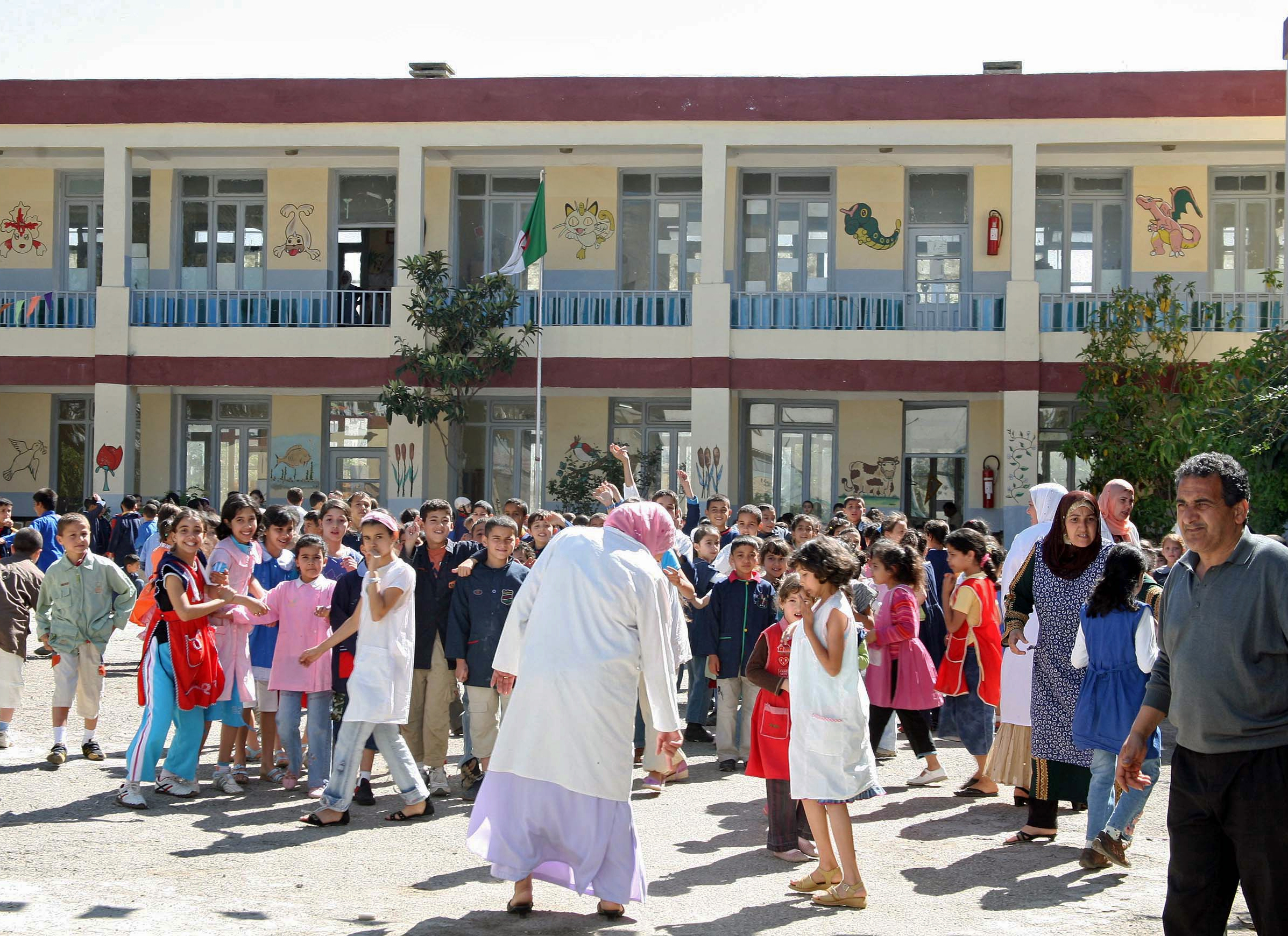 Primary school in Algeria (2012)